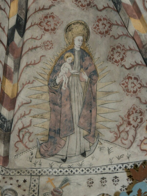 Kumlinge church, Åland Finland, Saint Mary